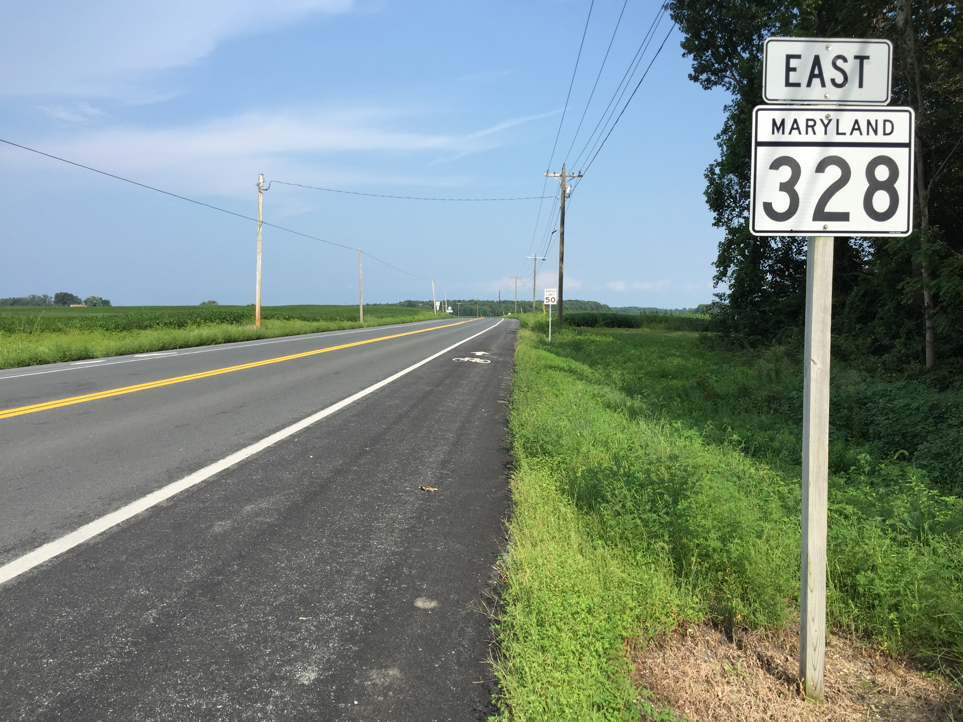 View east along Maryland State Route 328 (Matthewstown Road) at Lewistown Road and Kingston Landing Road in Matthews, Talbot County, Maryland